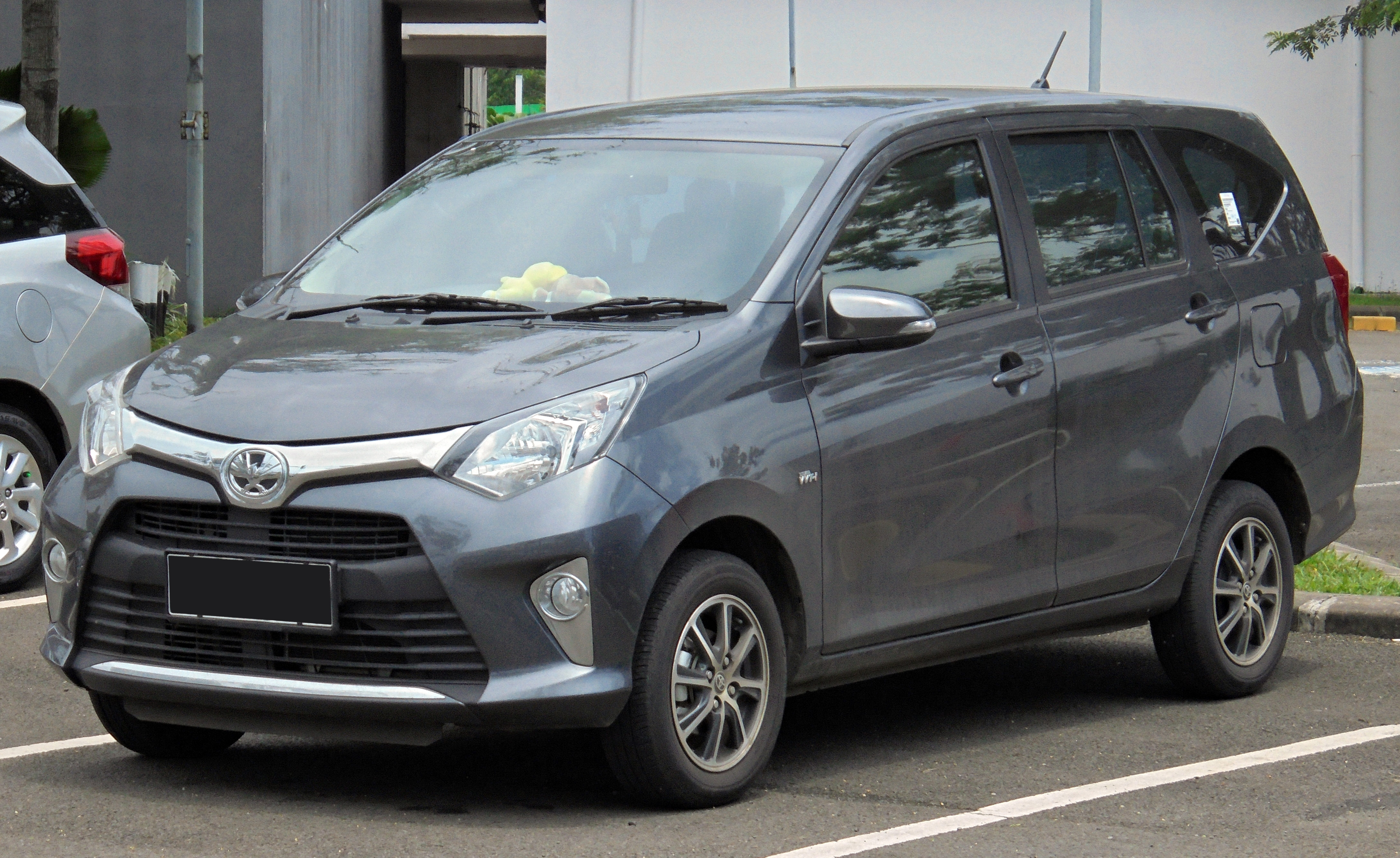 2018 Toyota Calya 1.2 G wagon (B401RA) photographed in South Tangerang, Banten, Indonesia.